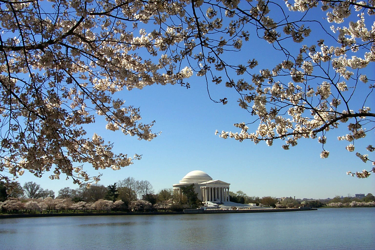 Jefferson Memorial